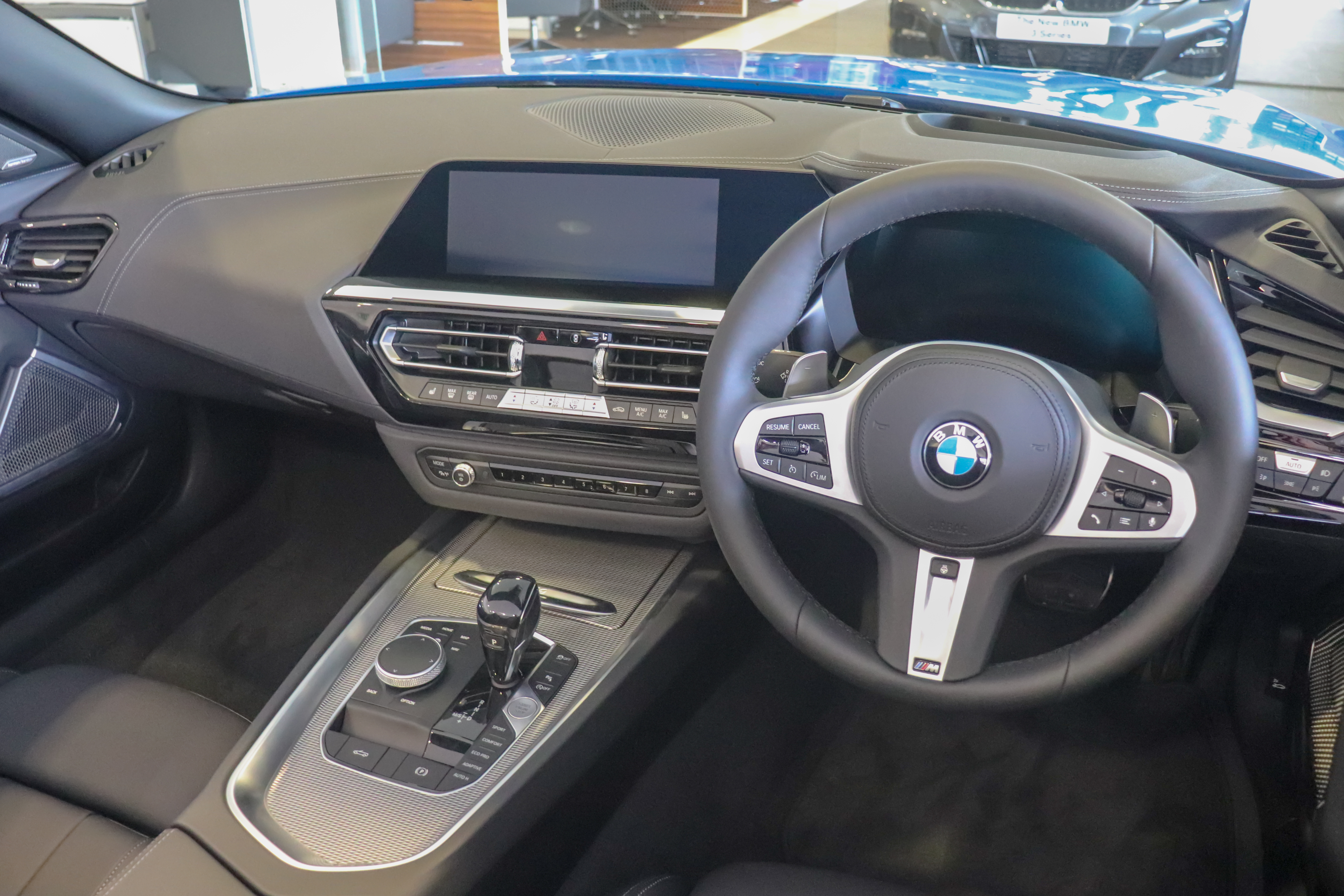 2019 BMW Z4 M40i Interior Taken in Leamington Spa